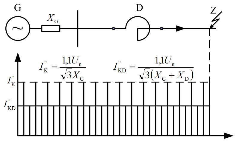 current-limiting reactor